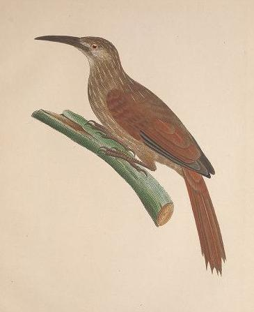 Dendrocolaptes falcirostris = Xiphocolaptes falcirostris in Spix, Avium Species Novae, 1824